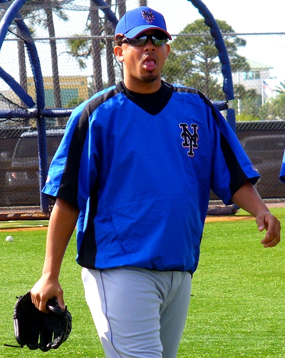 Duaner Sánchez 02:48, 19 July 2007 . . Metsfan7 . . 557×700 (386,180 bytes)